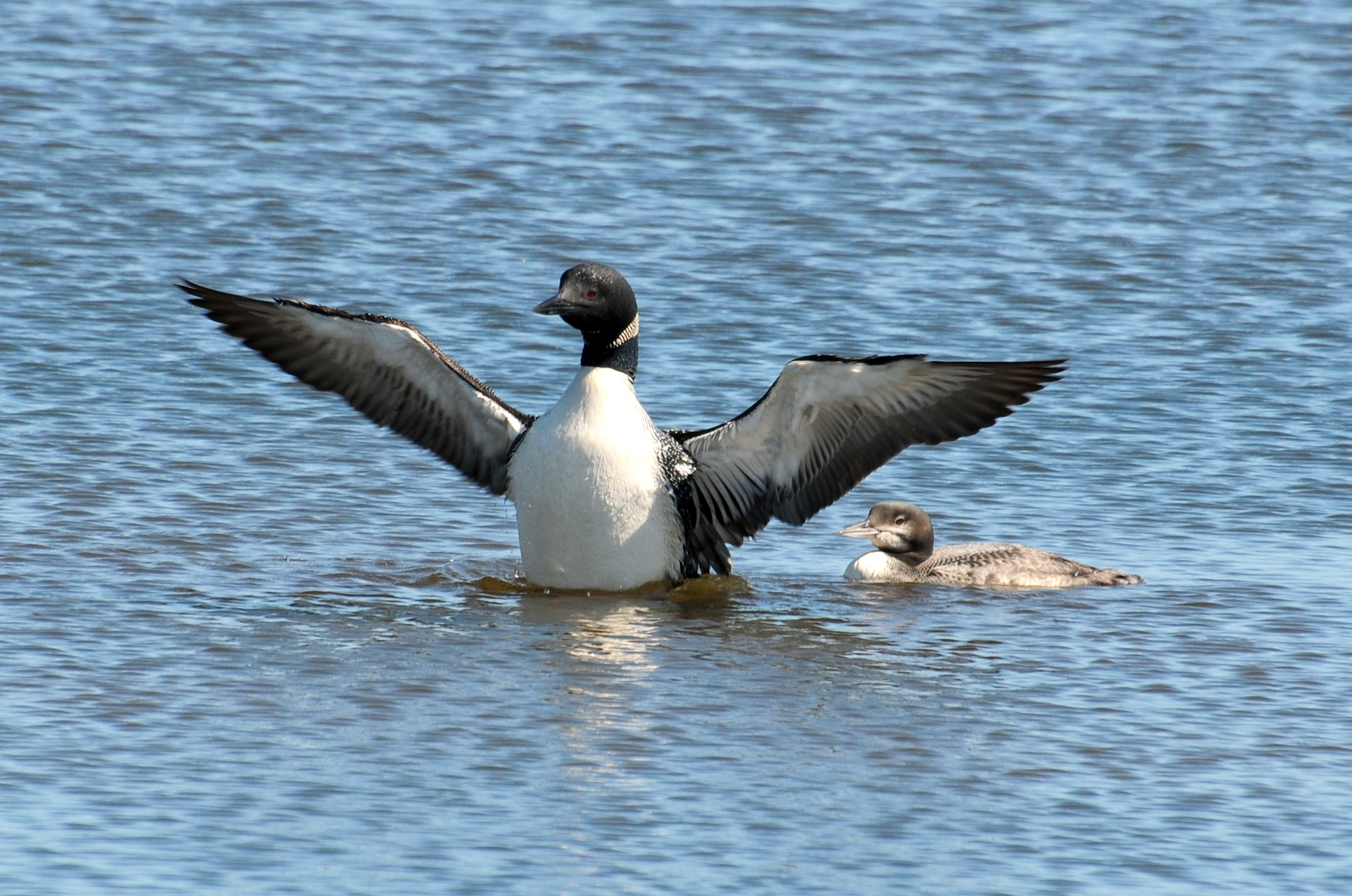 Photo: Watch Me Junior (Common Loon and chick). Photo Credit: Barbara Hysell, 2012 Photo Contest